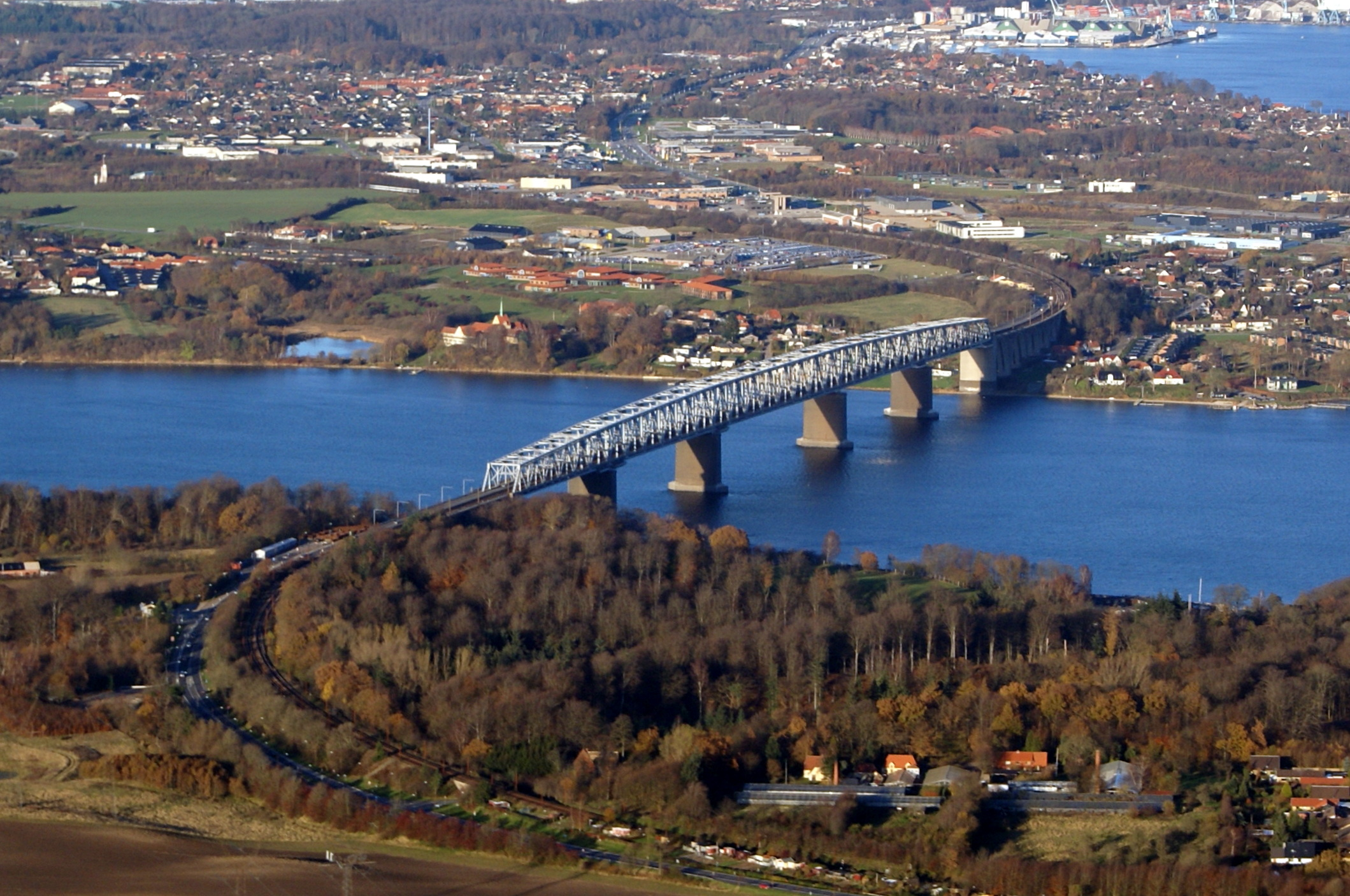 The old bridge of Lillebælt